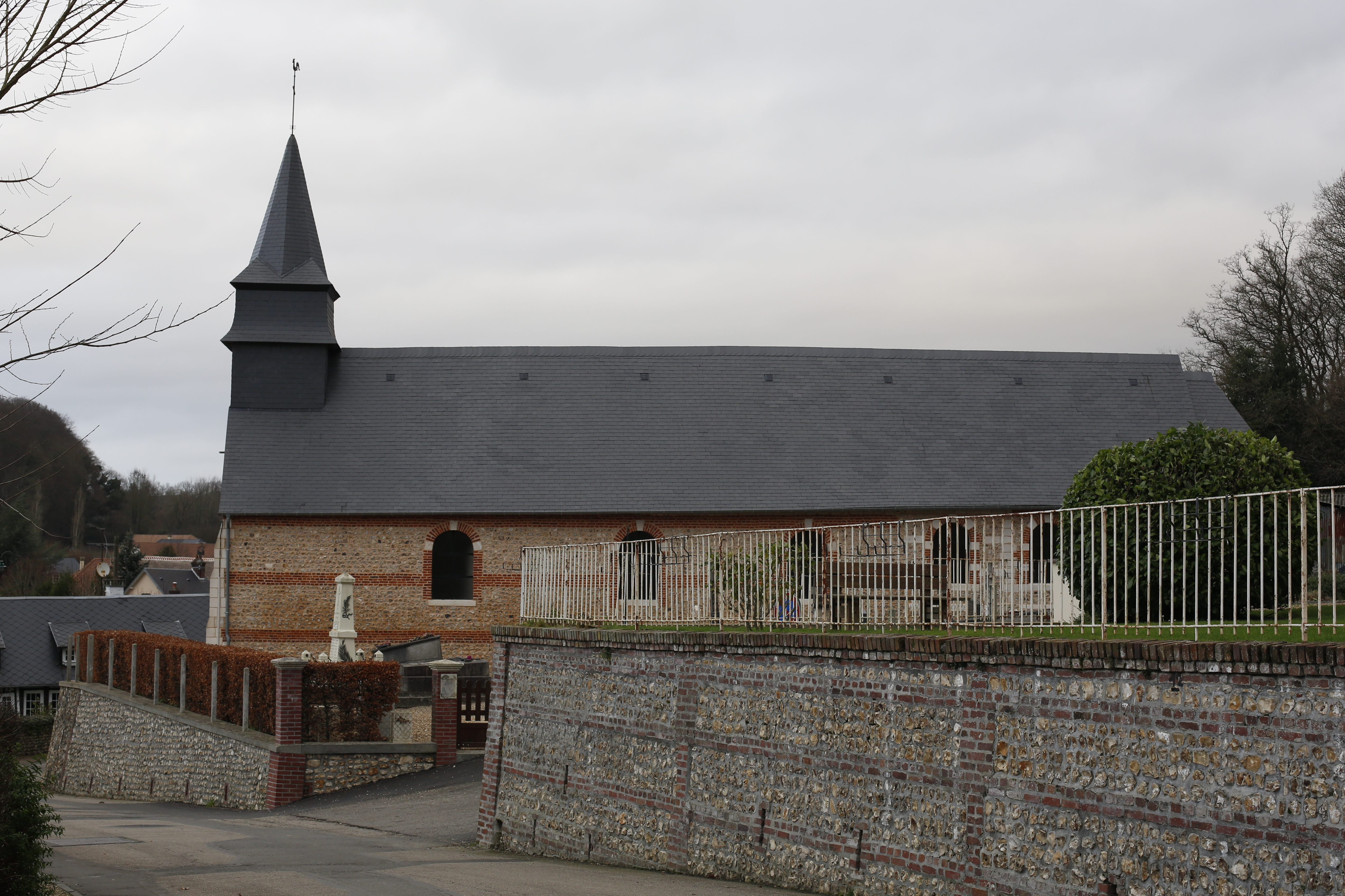 Church of Notre-Dame-du-Bec.